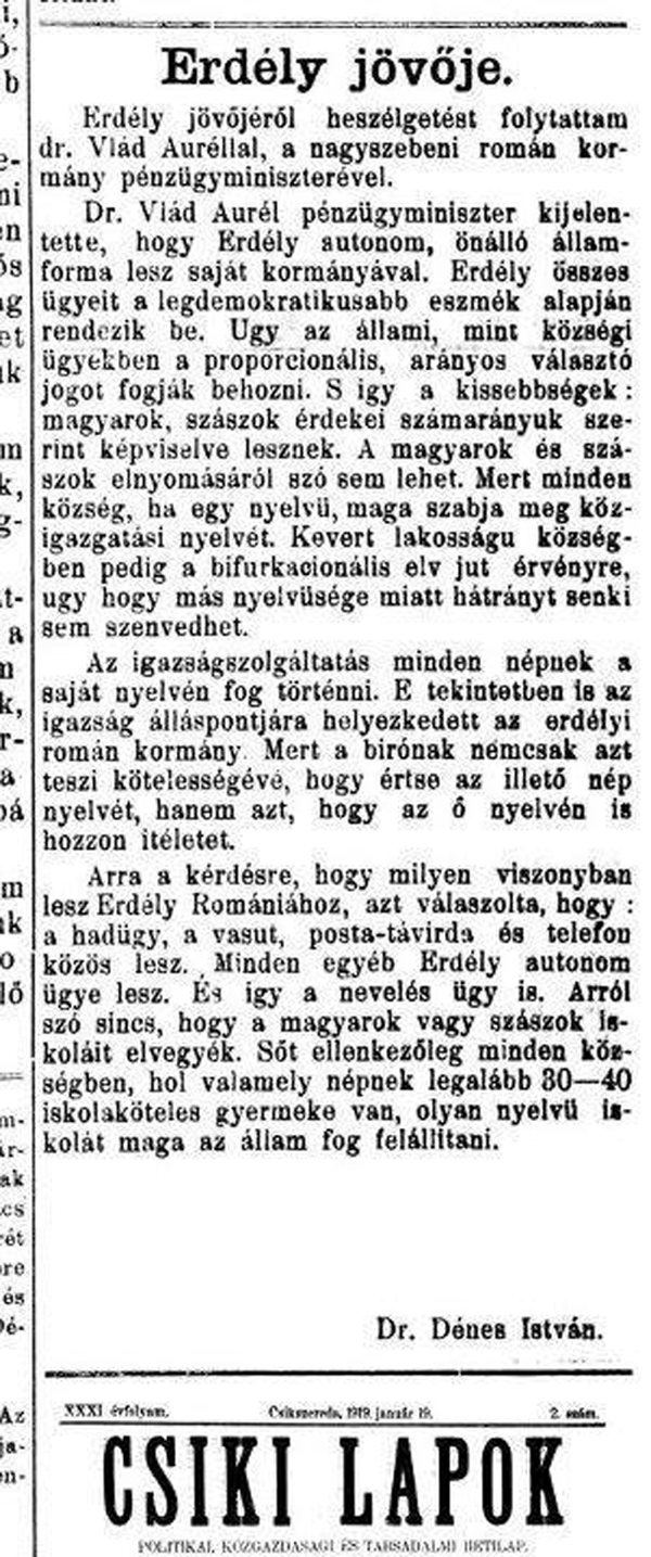 Hungarian newpaper Csiki Lapok 1919